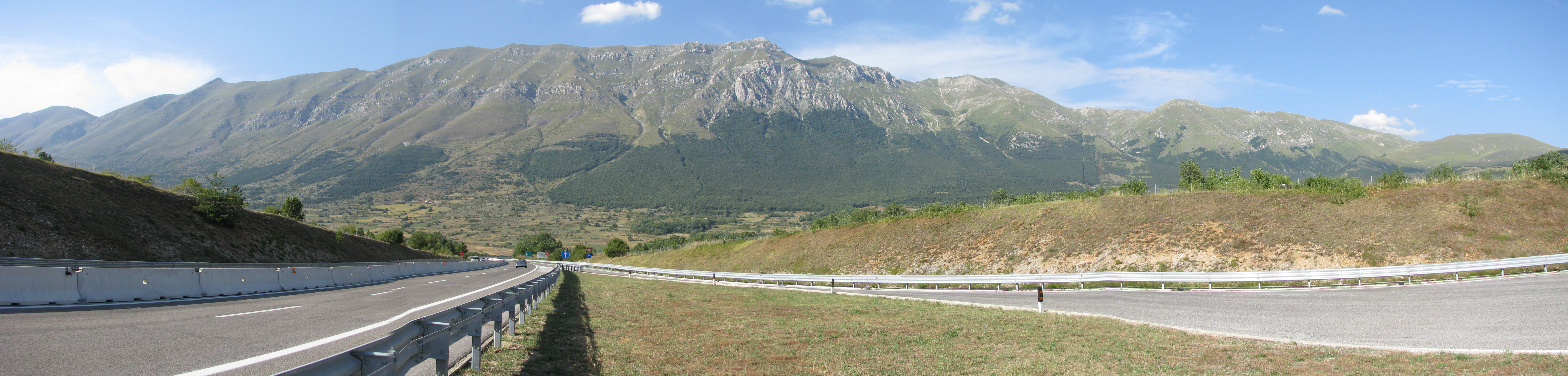 A24 Motorway, Italy. Panoramic view shortly before Gran Sasso tunnel